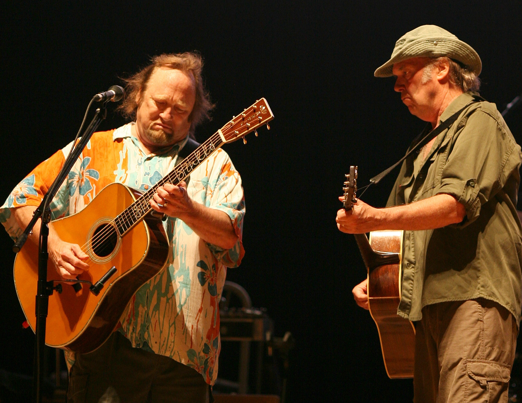 Stephen Stills and Neil Young performing during a 2006 tour as part of Crosby, Stills, Nash, and Young